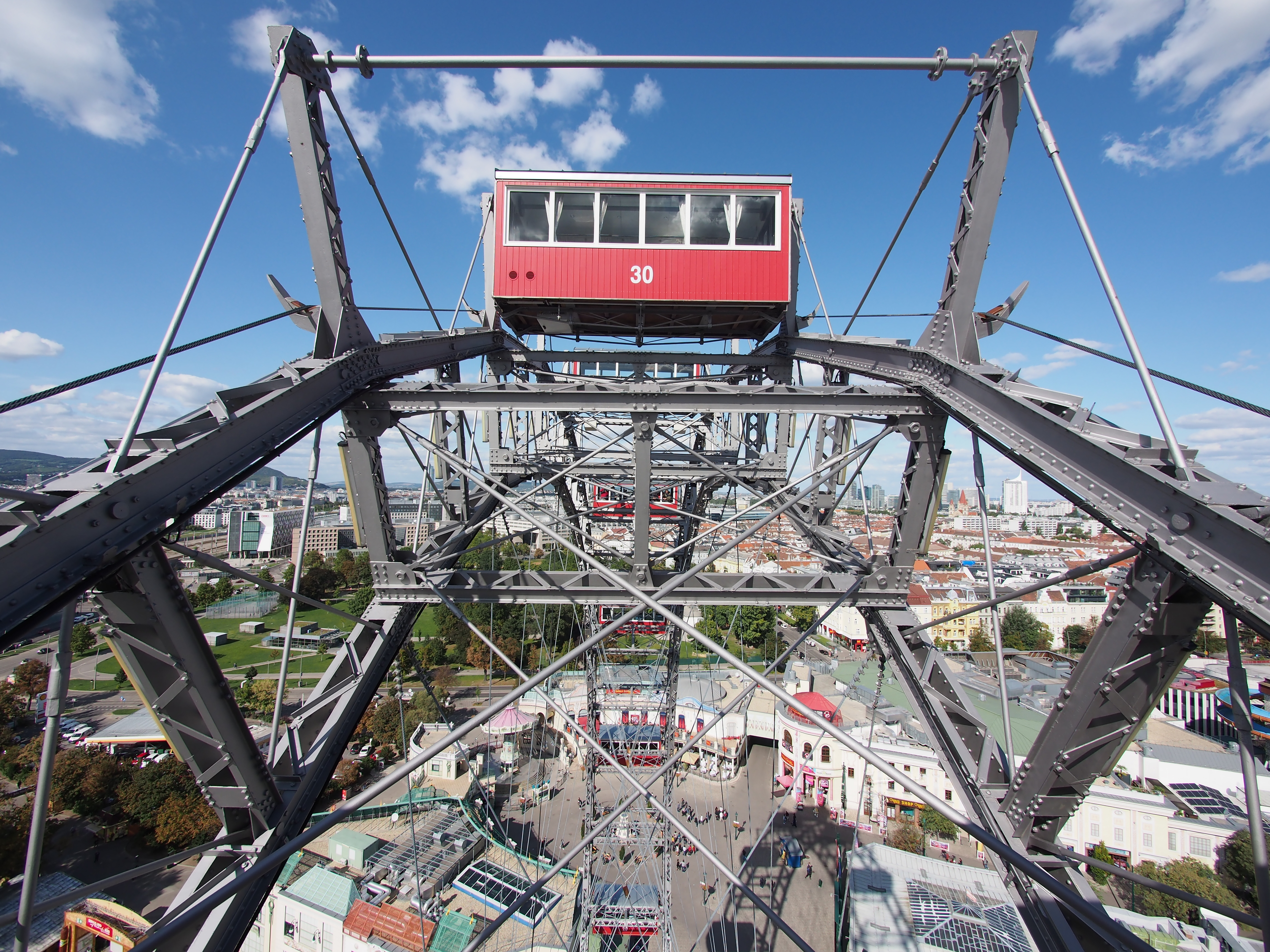 Riesenrad, Vienna.